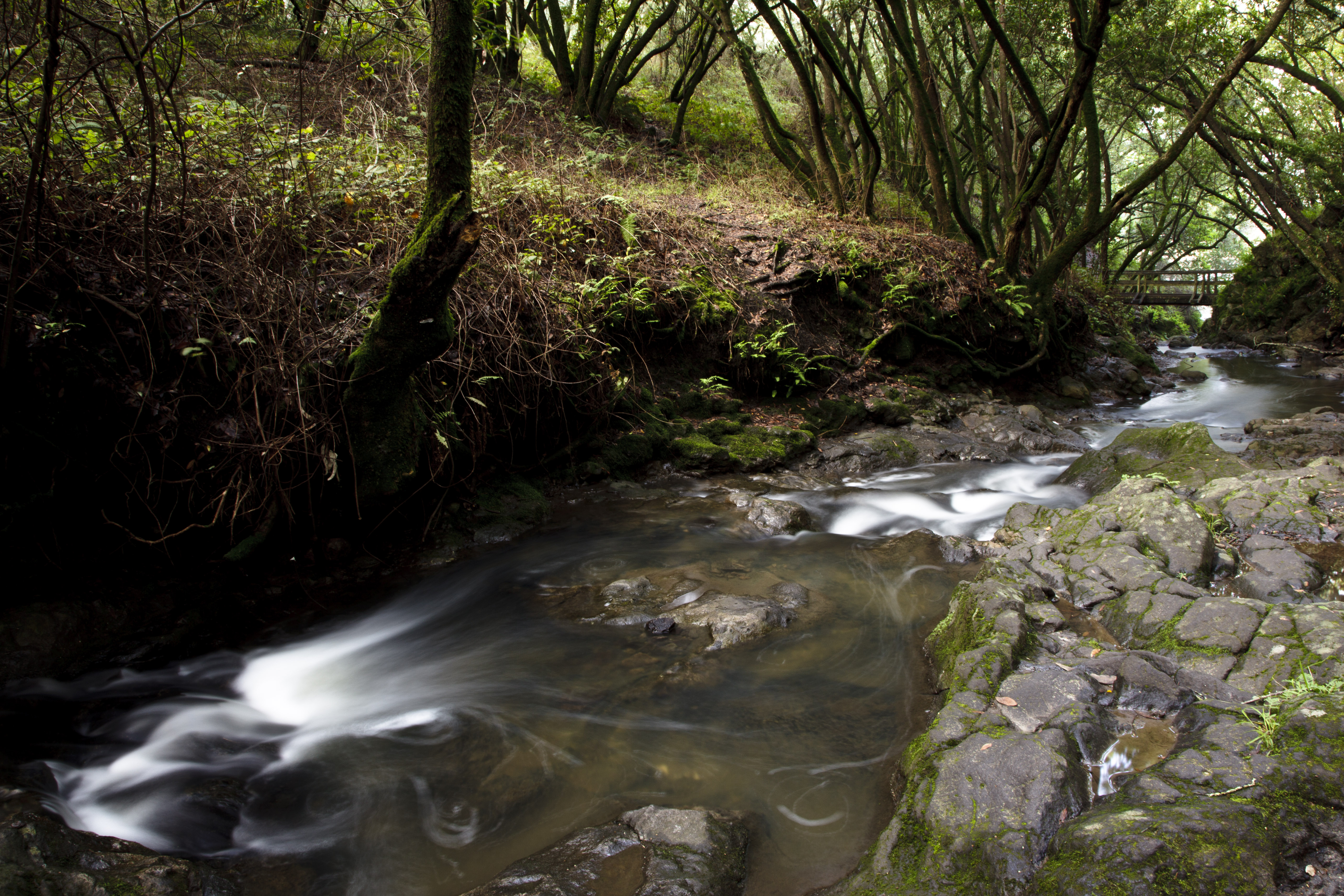 Wildcat Creek in Berkeley Hills, Califonia.